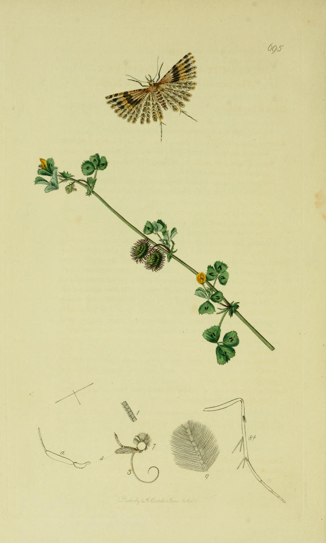 An illustration from British Entomology by John Curtis. Lepidoptera: Alucita hexadactyla (Twenty-four Plume Moth).